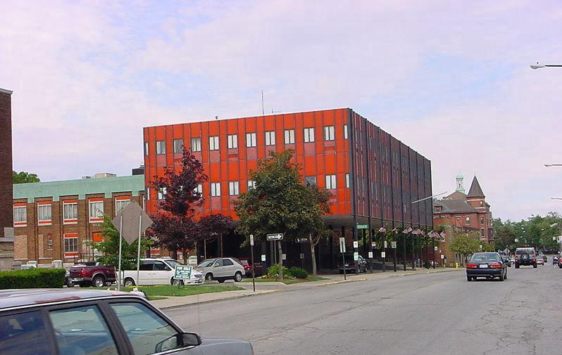 Photo of Lackawanna, New York City Hall. Located on Ridge Road at Victory Ave.